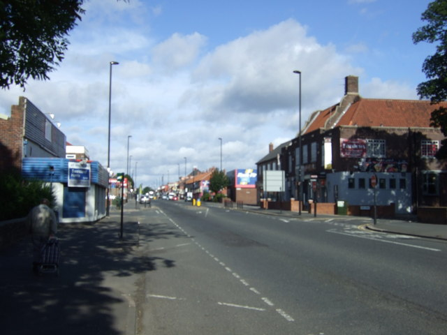 Westgate Road (A186)